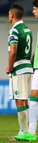 Jonathan Cristian Silva.